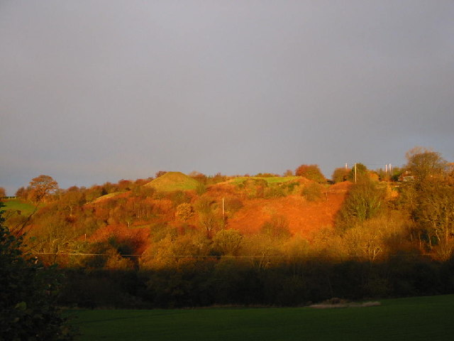 The Knapp, Castle Pulverbatch, Shropshire. The motte and bailey site at Castle Pulverbatch, known as the Knapp, dates from the 11th century and was by the Normans, looking out for Welsh attack, as a strategic vantage point along the Shrewsbury- Bishop's Castle road . It is common land and over the years has been used for innumerable picnics, community gatherings and children's play. It is now classified by English Heritage as an ancient monument and nature reserve. There are excellent views of the Stretton Hills and the Wrekin.